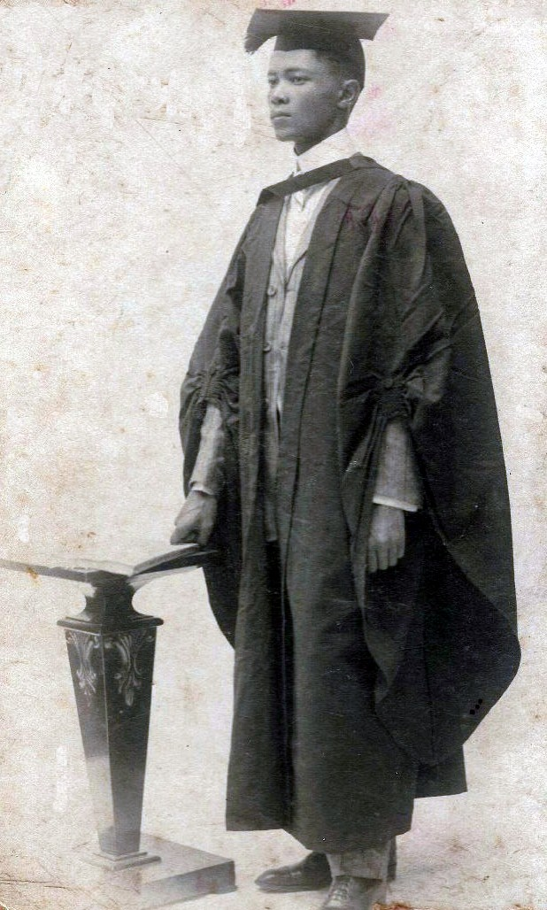 Harold Cressy (1 February, 1889 – 23 August, 1916) was a South African Headteacher and Activist. He was the first coloured person to gain a degree in South Africa in 1911 hence the picture